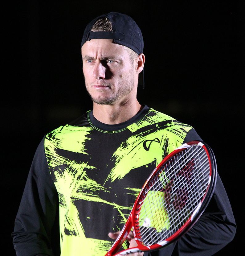 Photo taken of Lleyton Hewitt during the Indian Wells tournament in March 2014.